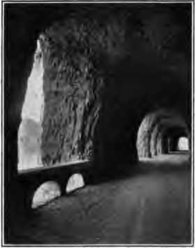 Mitchell Point Tunnel